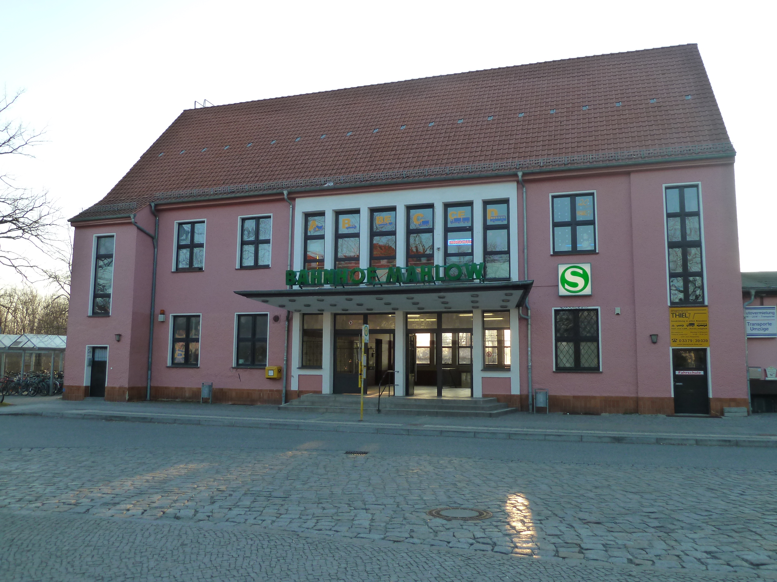 Mahlow, station building